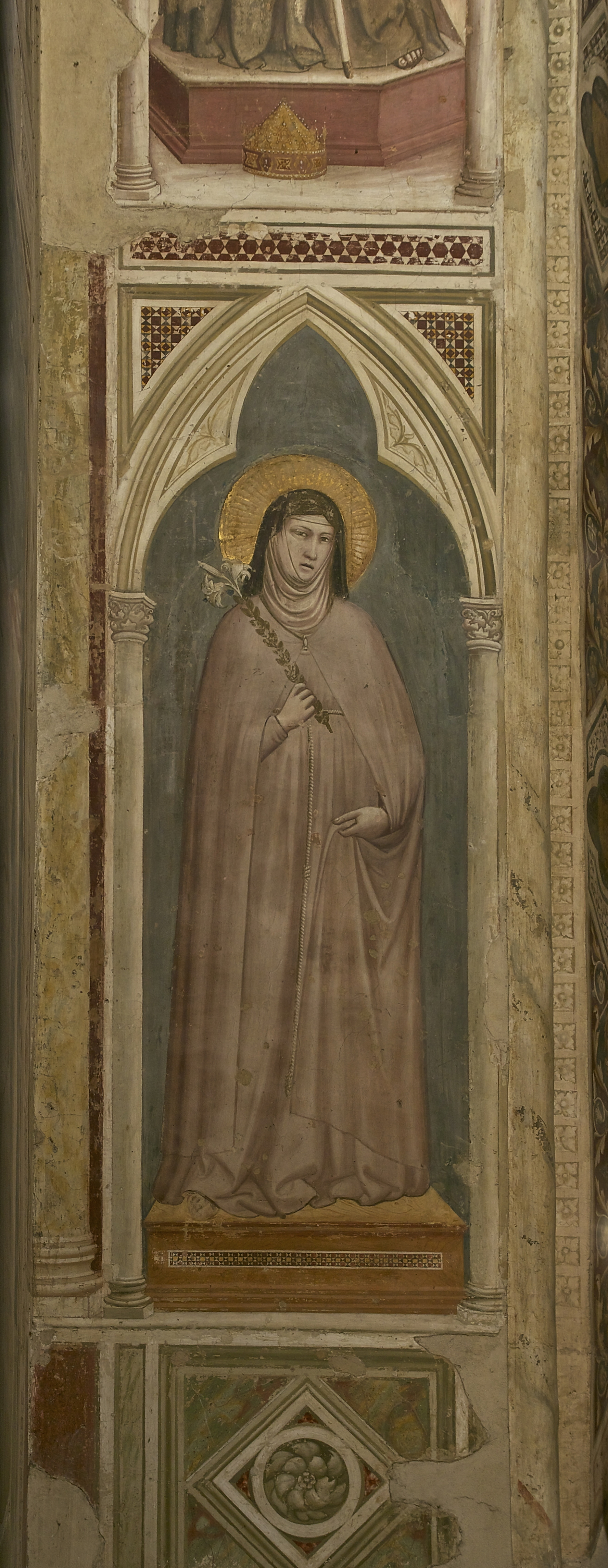 Clare of Assisi holding a lily